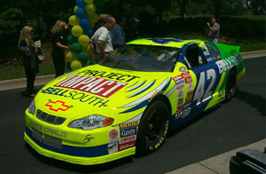 Charlotte, NC, May 18, 2000 -- NASCAR (National Association for Stock Car Auto Racing) Winston Cup driver, Kenny Irwin, has placed a Project Impact logo on his racing car as part of new partnership. FEMA News Photo